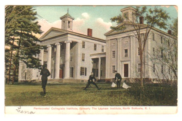 Scan of a postcard. Caption reads: Pentecostal Collegiate Institute, formerly the Lapham Institute, North Scituate, R.I.